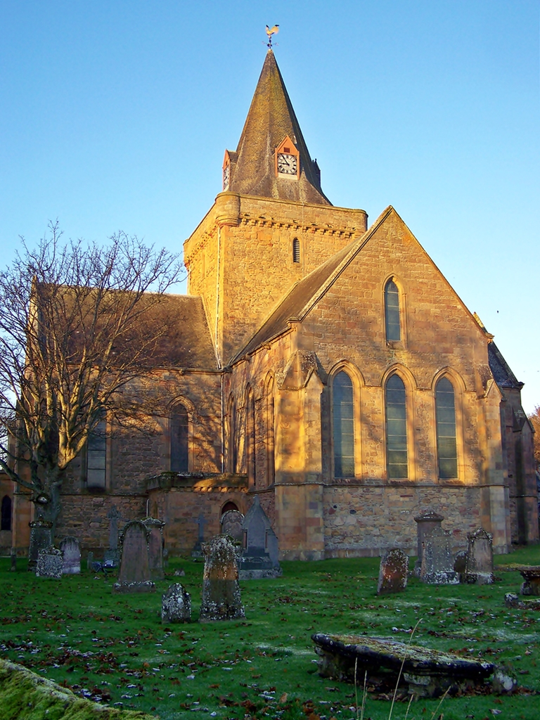 Dornoch Cathedral in the early november sunshine